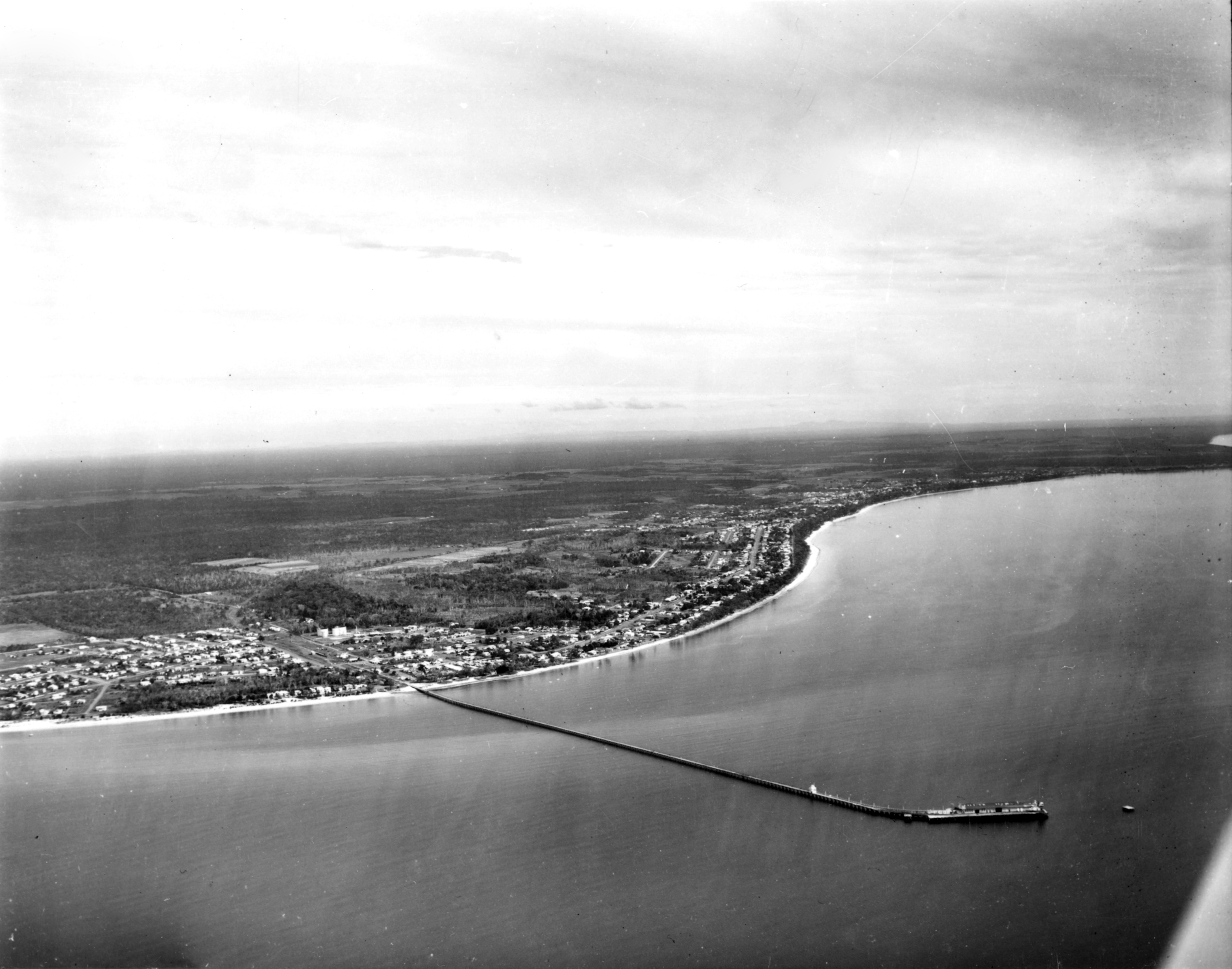 Aerial photograph of Hervey Bay looking north, 12 July 1967, showing the Urangan Pier